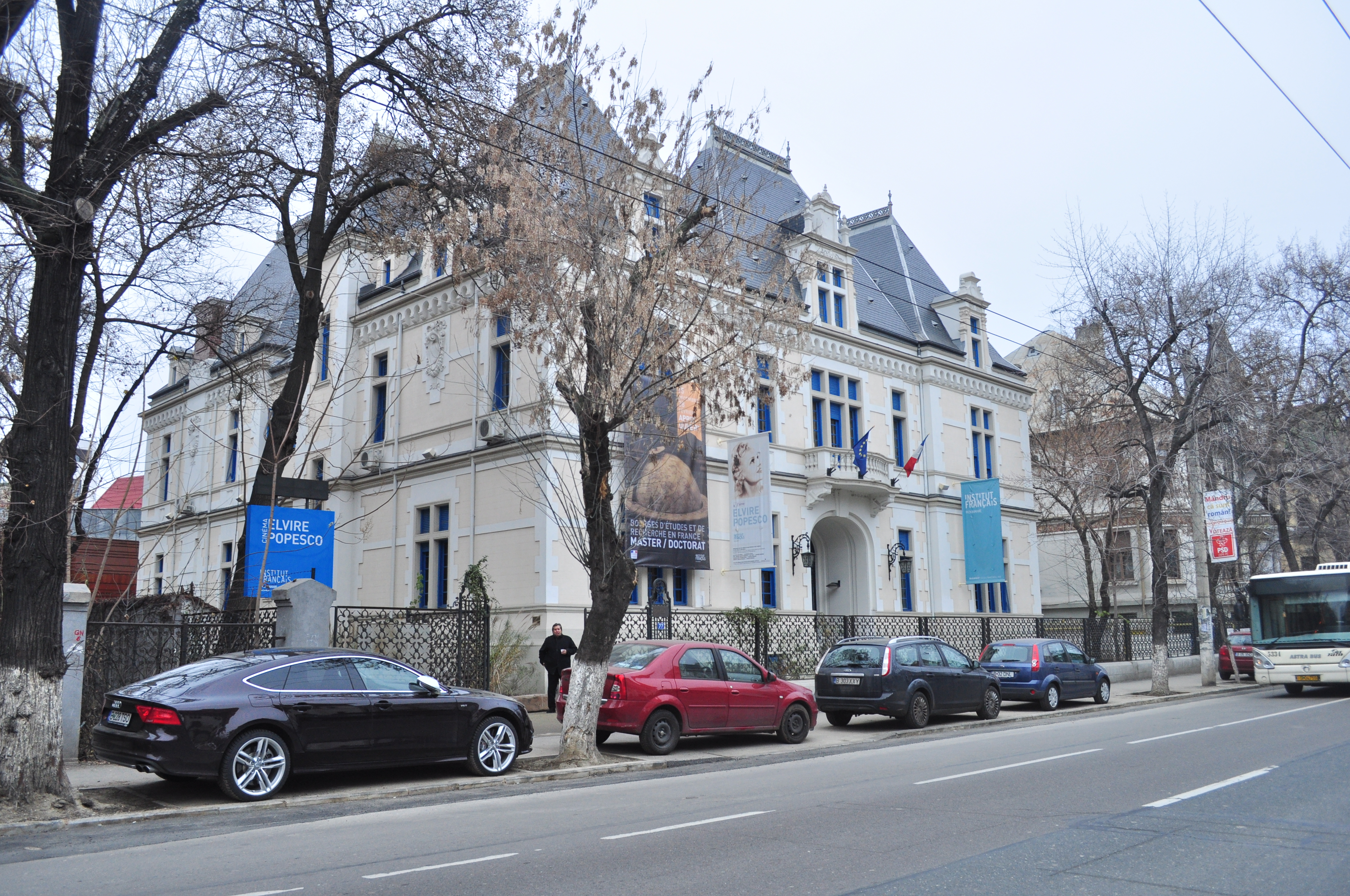 Institut Français, B-dul Dacia, nr. 77, Bucharest Sector 1, Romania.